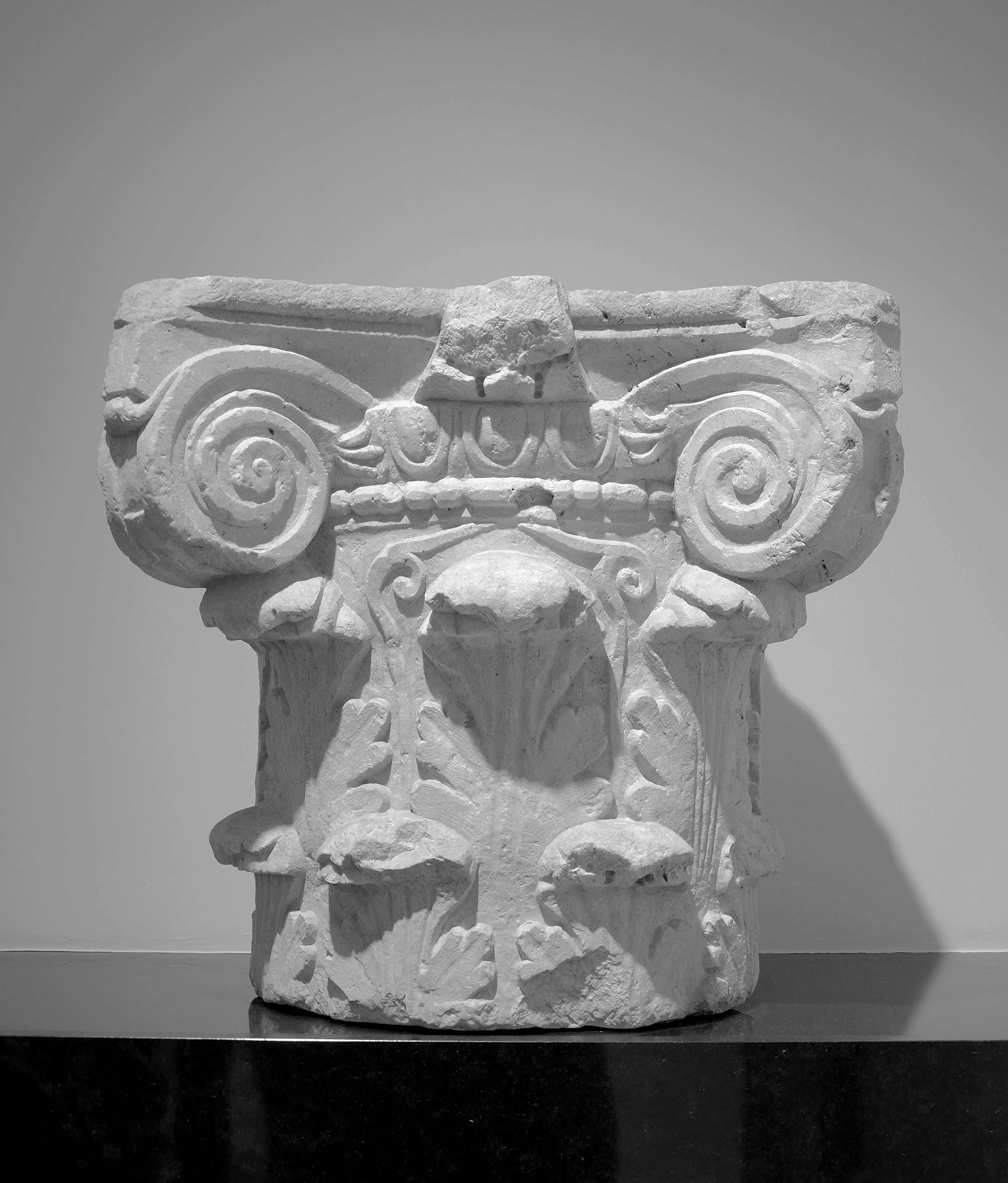 Capital of Composite order column at the Museum of taranto